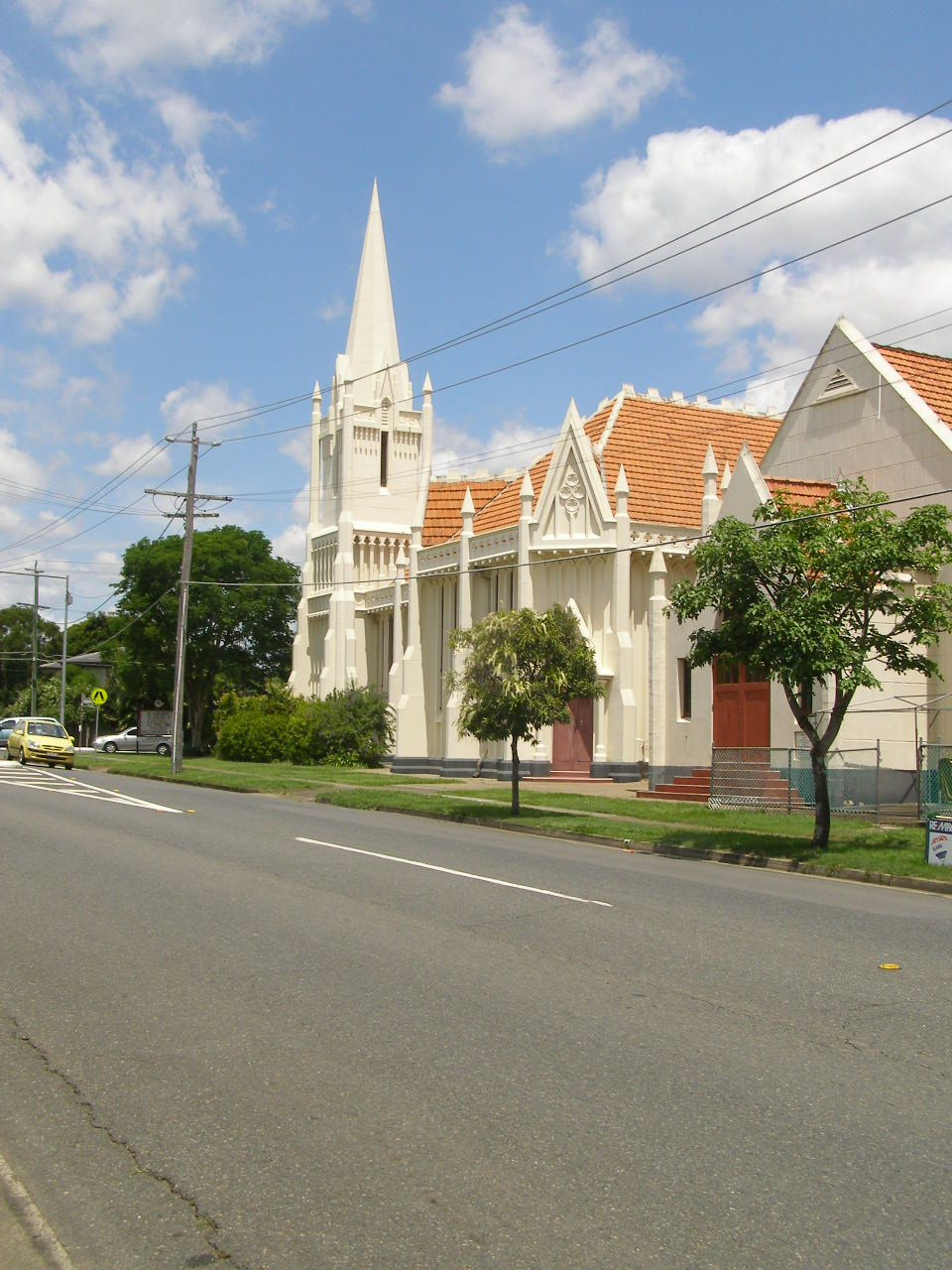 Graceville Uniting Church (formerly Graceville Methodist Church) on the north-west corner of the intersection of Oxley Road and Verney Road, Graceville, Brisbane, Queensland, Australia